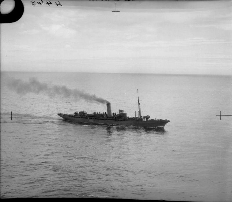 HMS Atmah Underway at sea. Possibly the same Atmah owned by the Rothschild family.